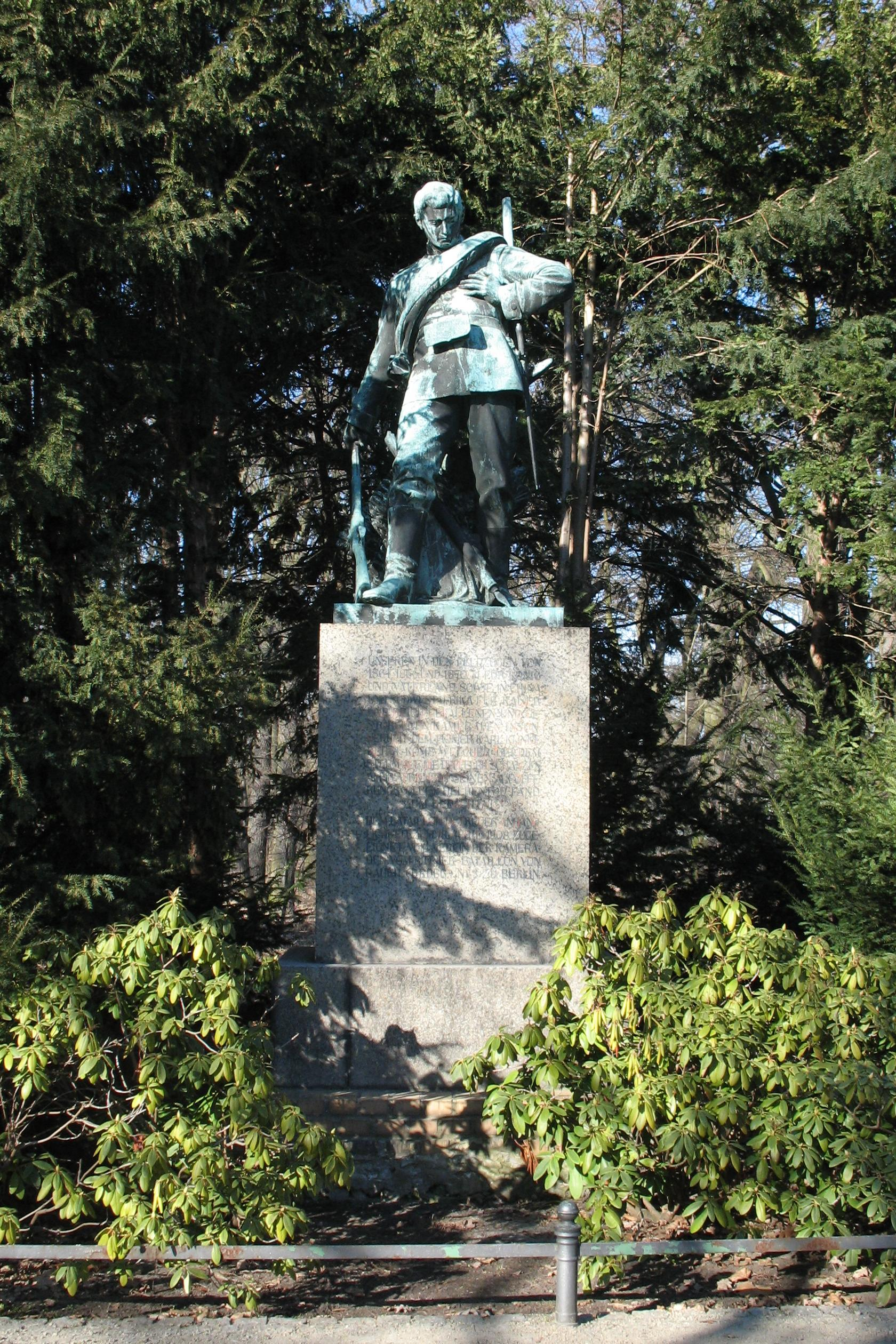 Carl Klinke memorial in Berlin-Spandau, Germany